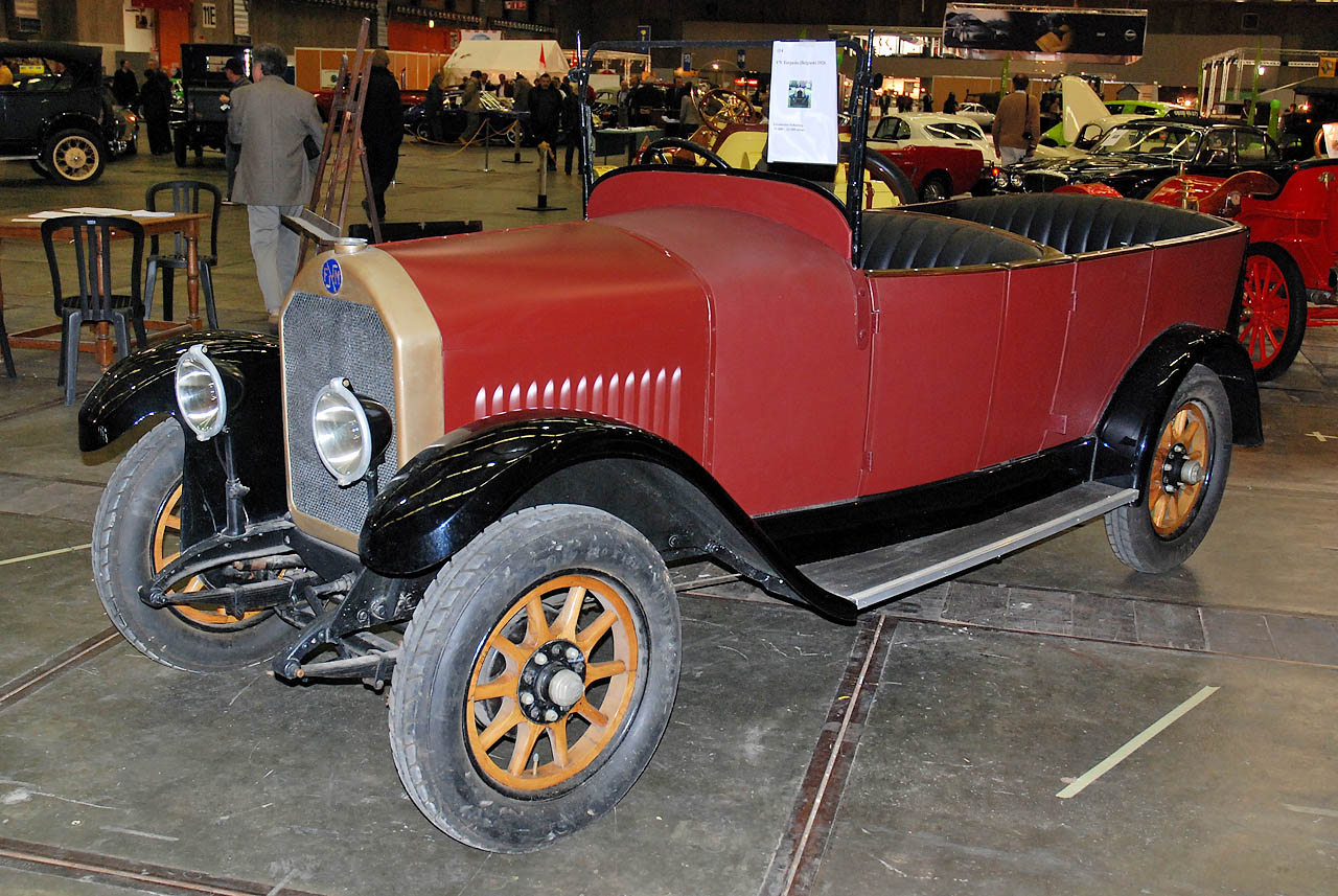 touring car with 1.3-litre 4-cylinder engine with overhead valves and open torpedo body, made in Belgium by Fabrique Nationale d'Armes de Guerre; left front-side view